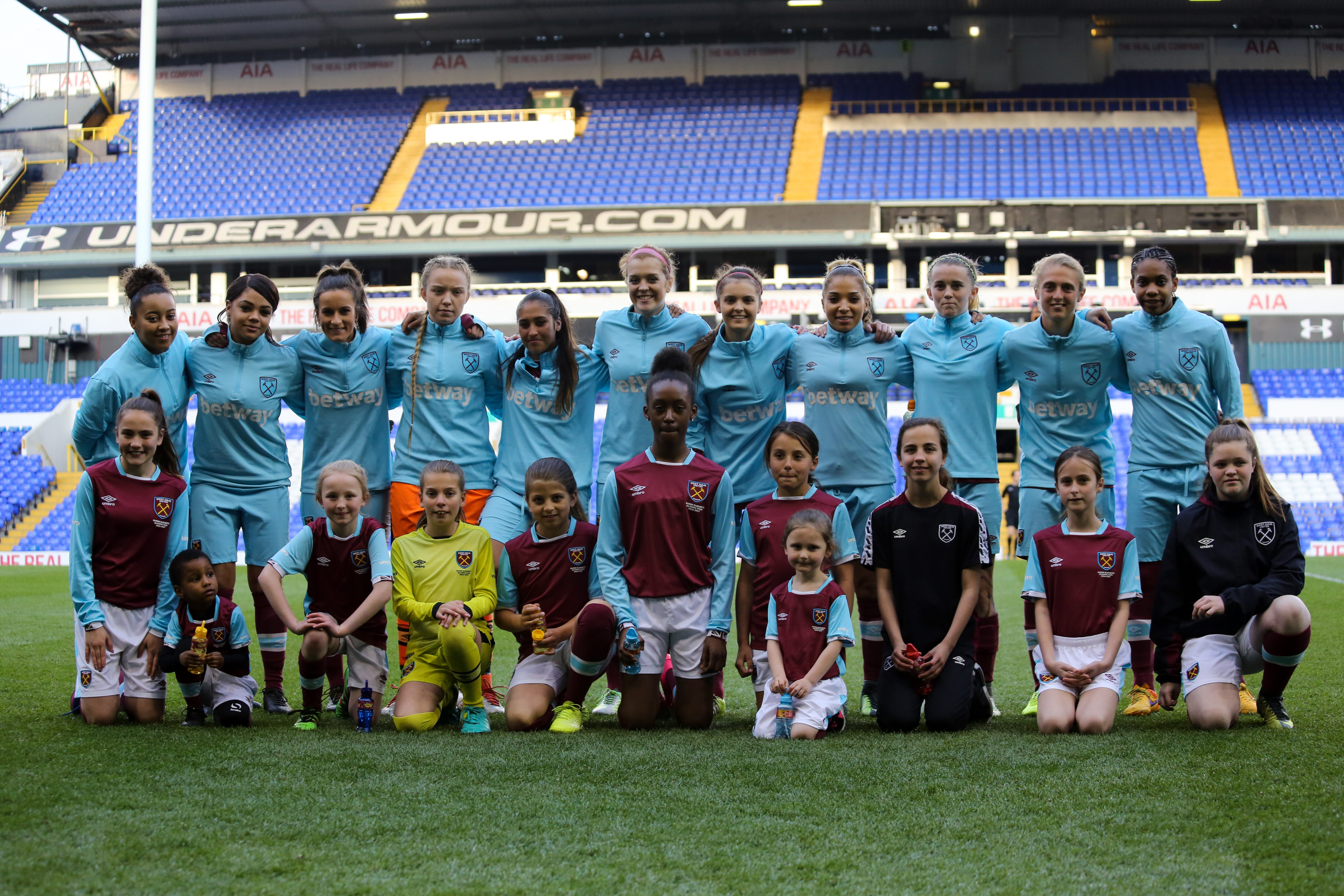 Tottenham Hotspur LFC v West Ham United LFC, 19 April 2017